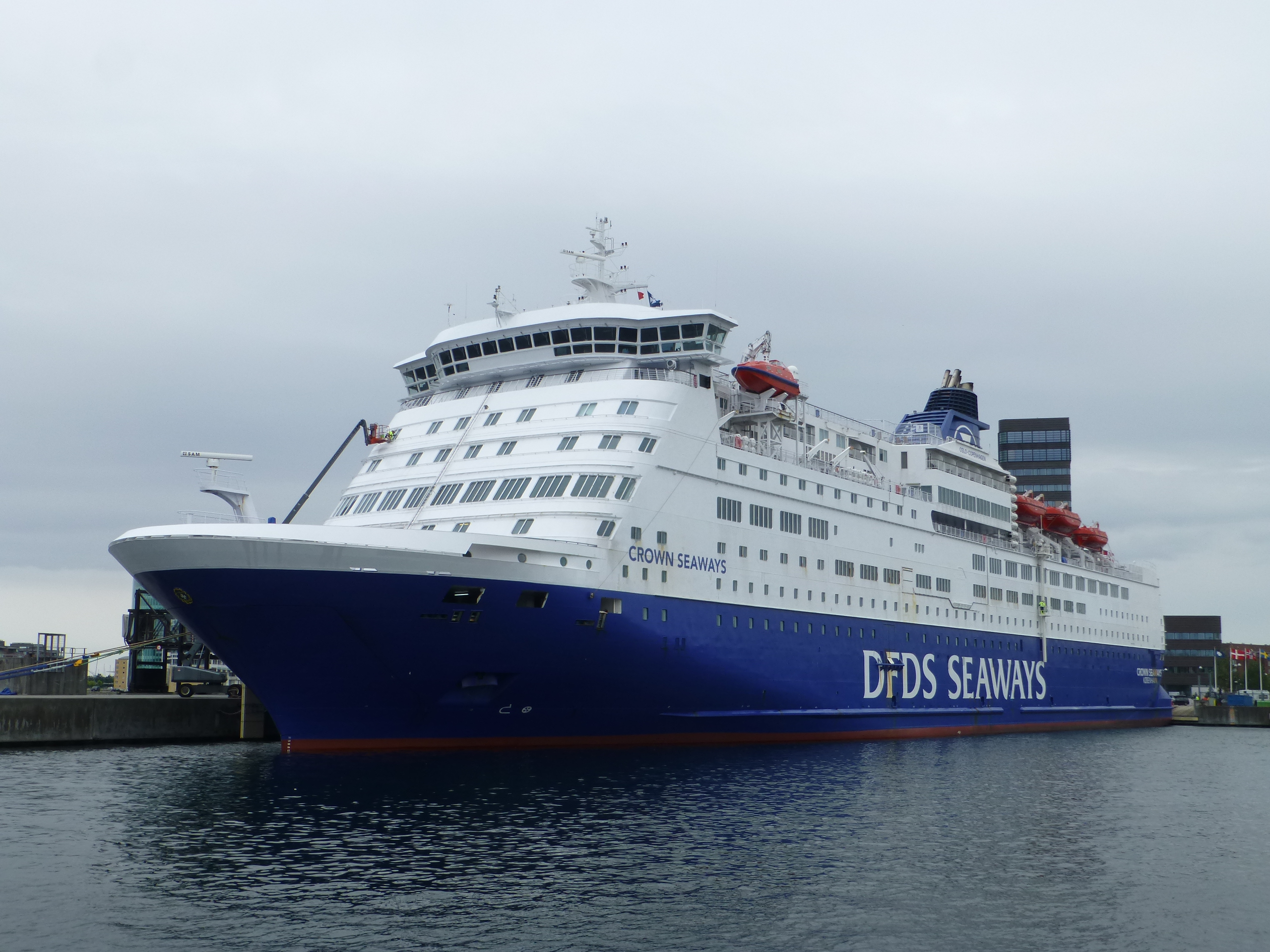 The ferry Crown Seaways for Oslo in the port of Copenhagen.